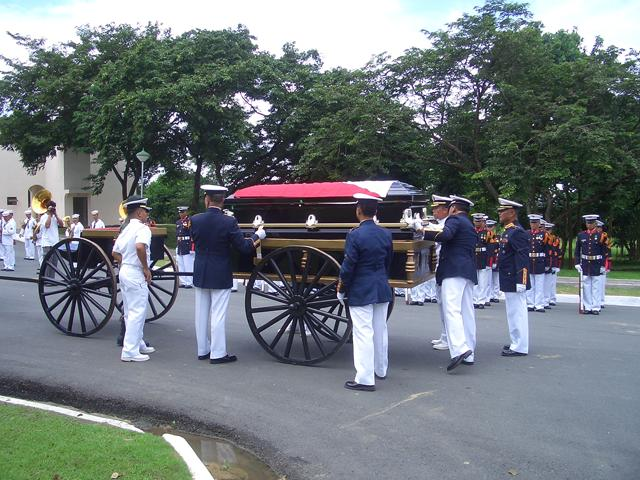 Rear Admiral Espaldon on the AFP Gun Carriage during his interment at the Libingan Ng Mga Bayani in 2009